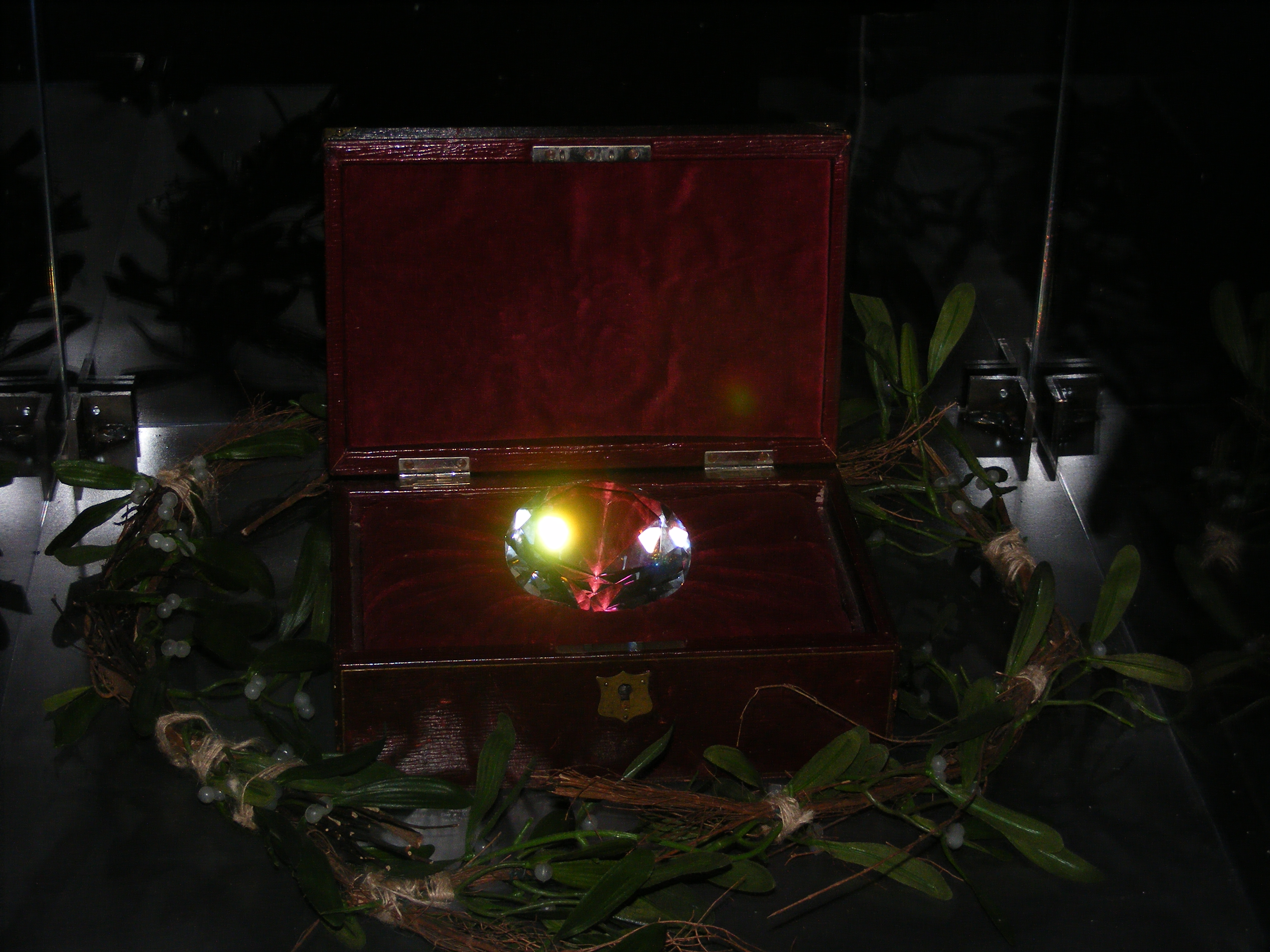 Dr Who Exibition London 08 Doctor Who Experience